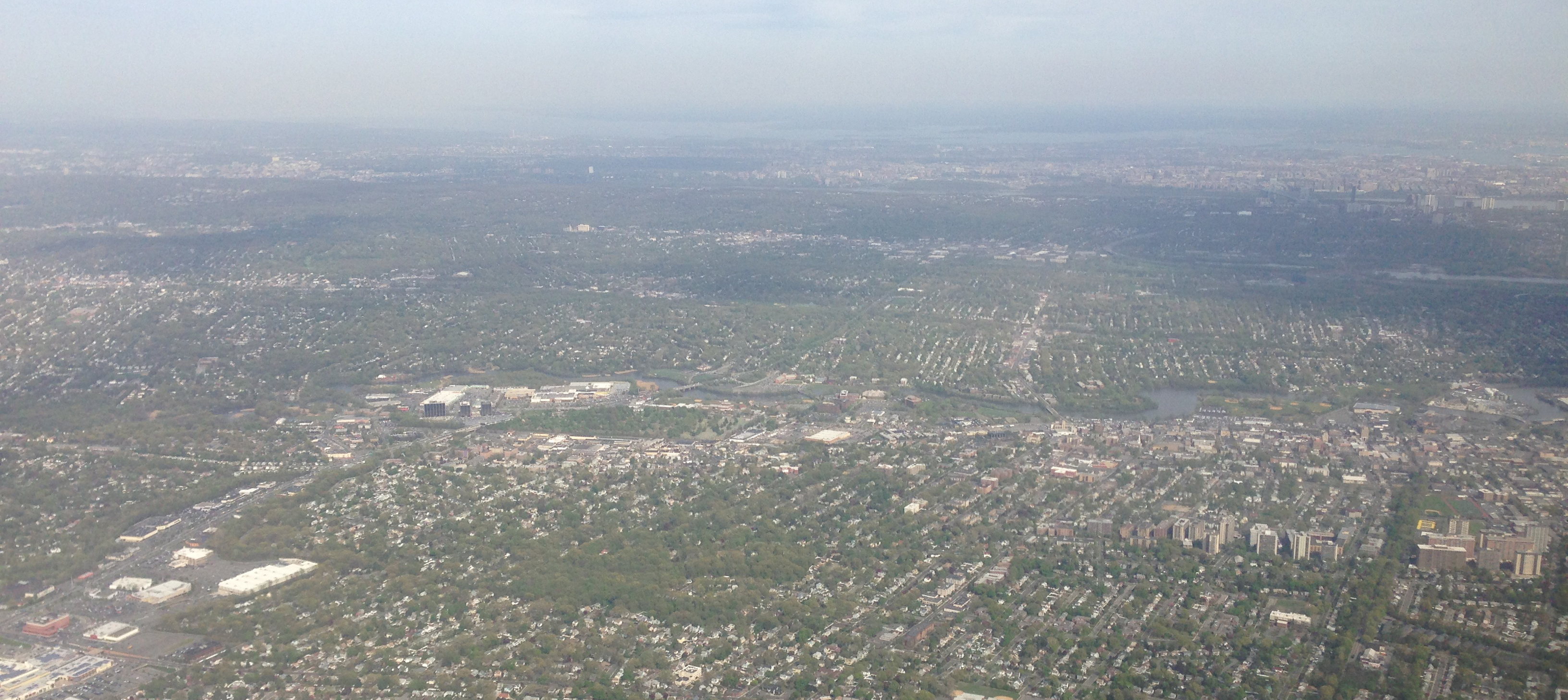 View of Hackensack, New Jersey from an airplane heading for Newark Airport-cropped